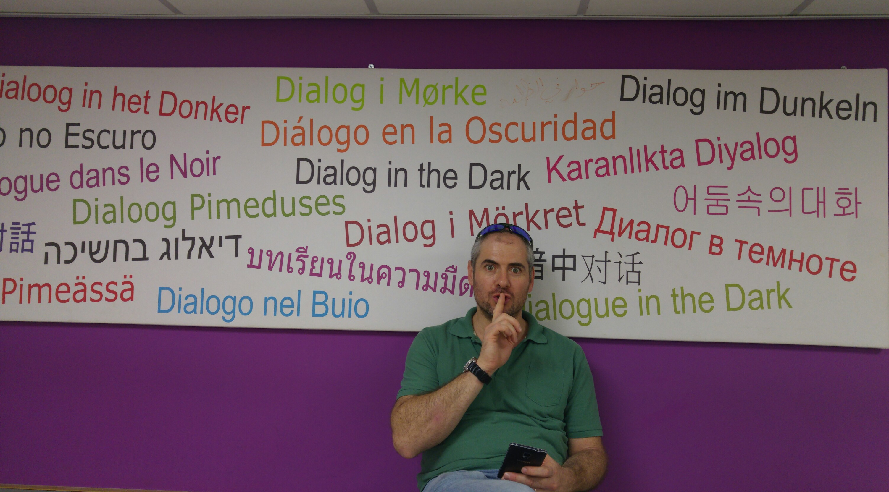 Dialogue in the Dark exhibition waiting room